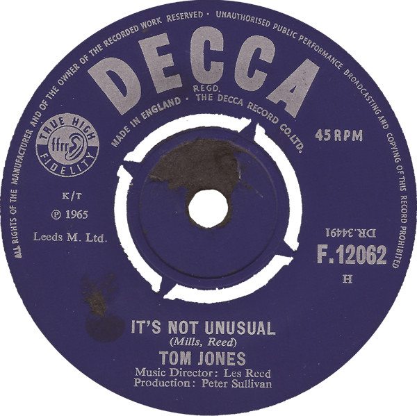 Label of the song "It's Not Unusual"